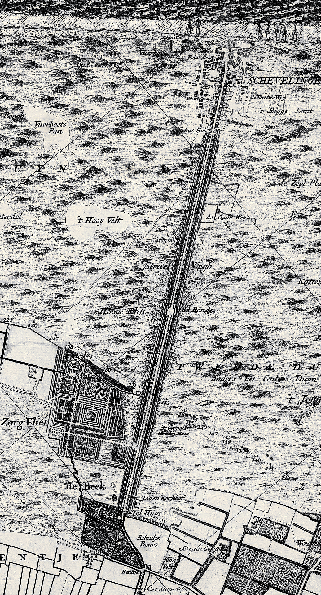 Scheveningseweg between The Hague (below) and Scheveningen (top side)